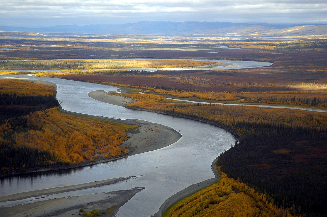 Koyukuk River, Kanuti National Wildlife Refuge, late summer